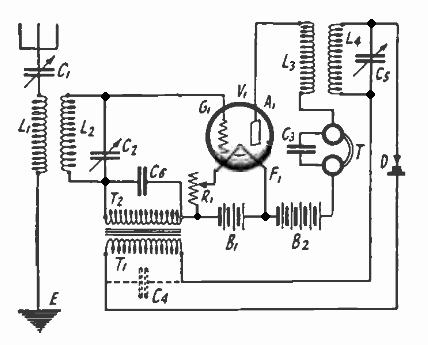 The circuit of a reflex radio receiver, an inexpensive radio made during the 1920s. The distinguishing feature of the reflex circuit is that the amplifying tube is used twice; the radio signal from the tuner is amplified in the triode vacuum tube V1, rectified in the diode D, then the resulting audio signal is passed through the tube again for audio amplification.